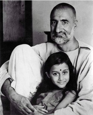 In this historic photograph, Indira Gandhi sits in the lap of Abdul Ghaffar Khan (Bacha Khan), the founder of Khudai Khidmatgar movement and close ally of Mohandas Gandhi in his civil disobedience movement against the British rule.